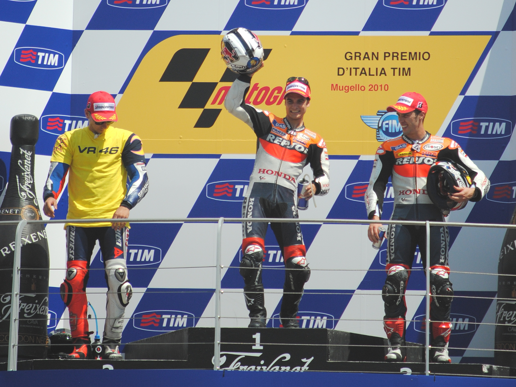 2010 Italian motorcycle Grand Prix MotoGP podium